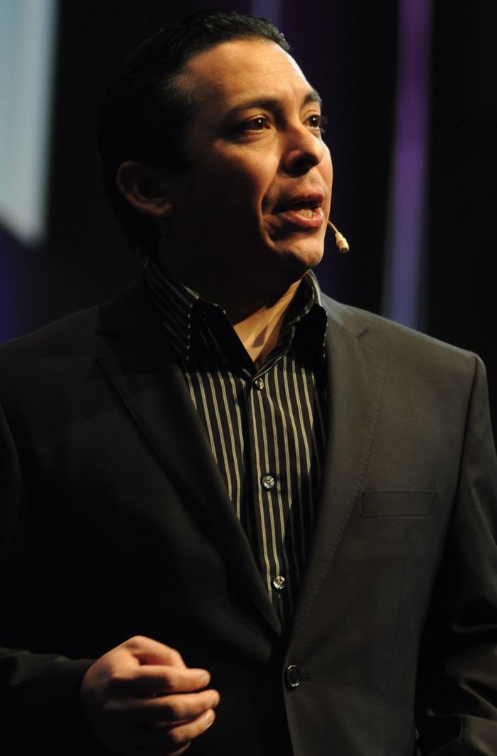 Brian Solis speaking at the LIFT11 conference in Geneva.